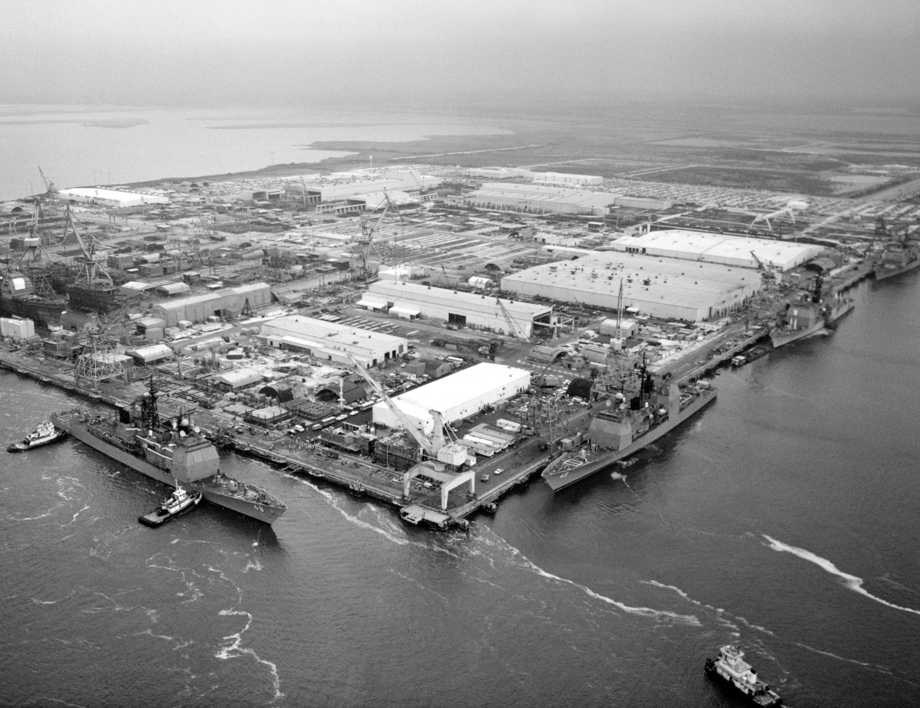 An aerial view of the Aegis guided missile cruiser USS YORKTOWN (CG 48), center, being moored by tugs to begin post-skakedown availability work. The three Aegis cruisers at right are, front to back: The VINCENNES (CG 49), the VALLEY FORGE (CG 50) and the BUNKER HILL (CG 52). Also visible to the left is the Aegis guided missile cruiser Mobile Bay (CG 53) under construction.